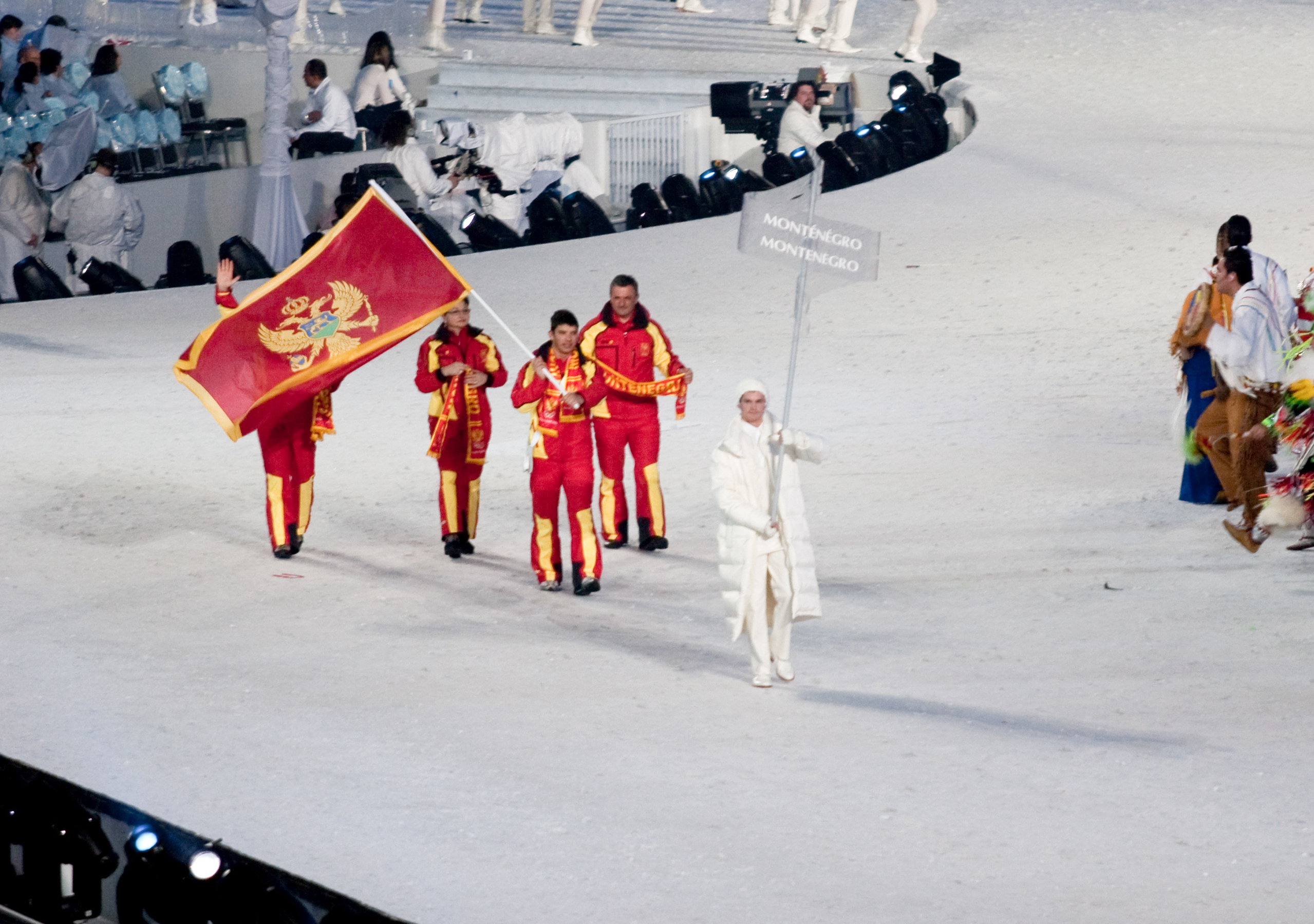 The athletes from Montenegro entering the stadium at the opening ceremonies of the 2010 Winter Olympics